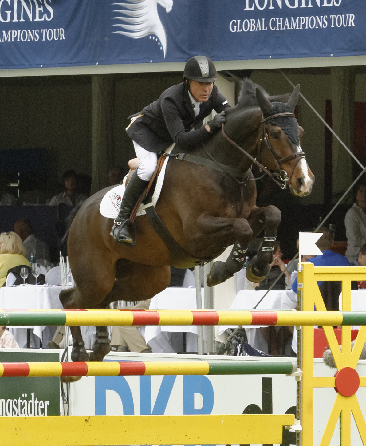 Internationales Pfingstturnier Wiesbaden 2013 The making of this document was supported by the Community-Budget of Wikimedia Germany.